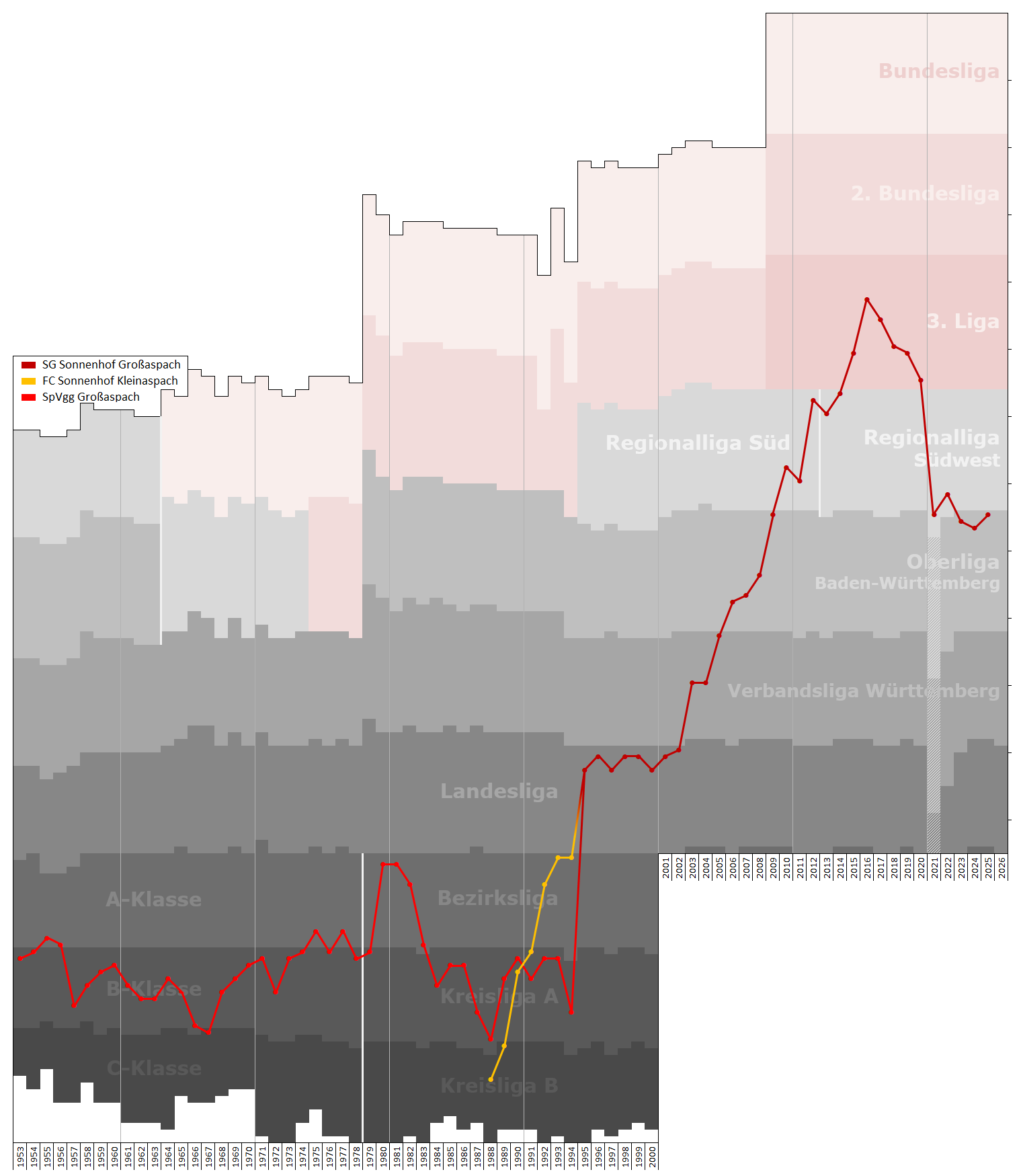 Chart of end-season table positions of Sonnenhof Großaspach in the football league system of Germany. Data source: RSSSF, wikipedia, f-archiv.de, fussball.de